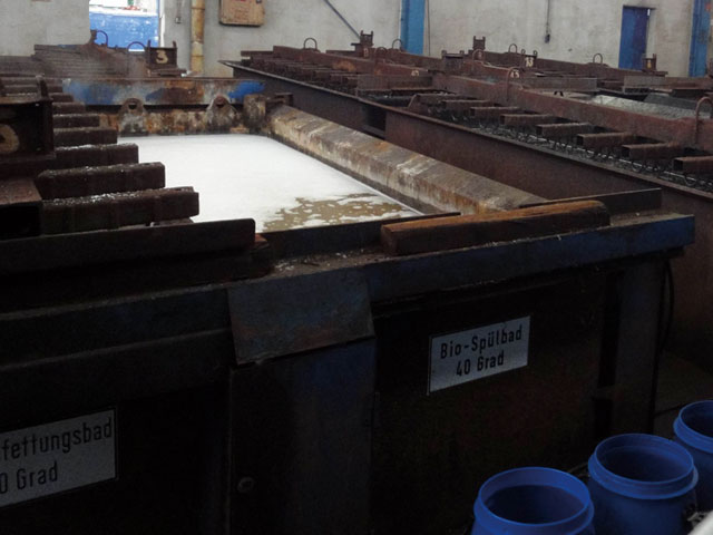 Hamburg